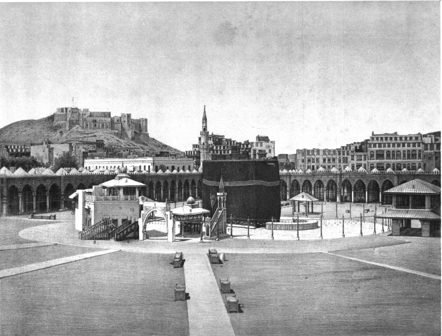 The Holy Mosque in Mecca with the Kaaba, Gate of Banu Shayba (1), Hijr (2), the building of the Zamzam well (3), Maqam Ibrahim / Maqam Shafi‘i (6), Minbar (7), Maqam Hanafi (8), Maqam Maliki (9), Maqam Hanbali (10)